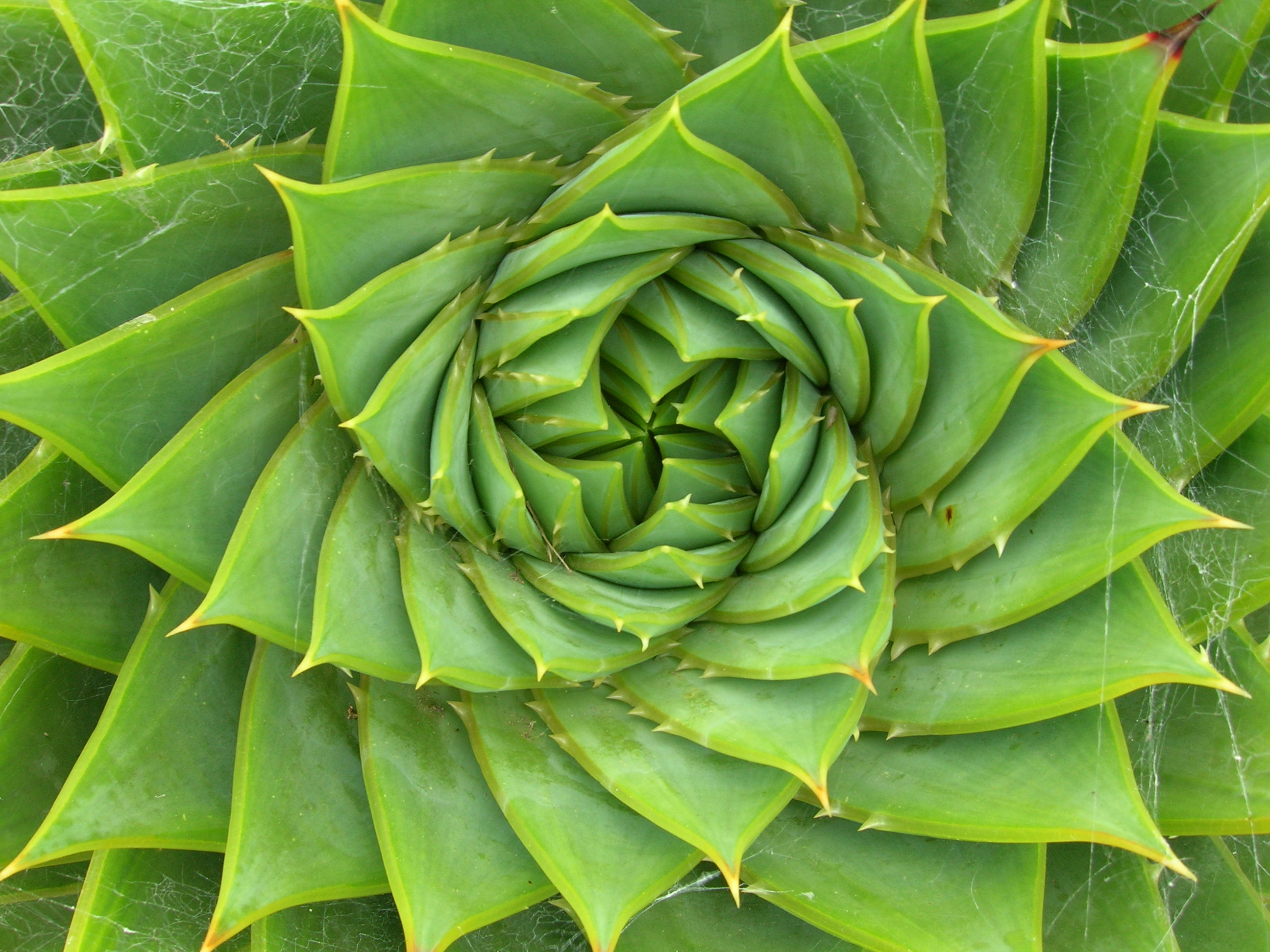 Aloe polyphylla, also known as Spiral aloe